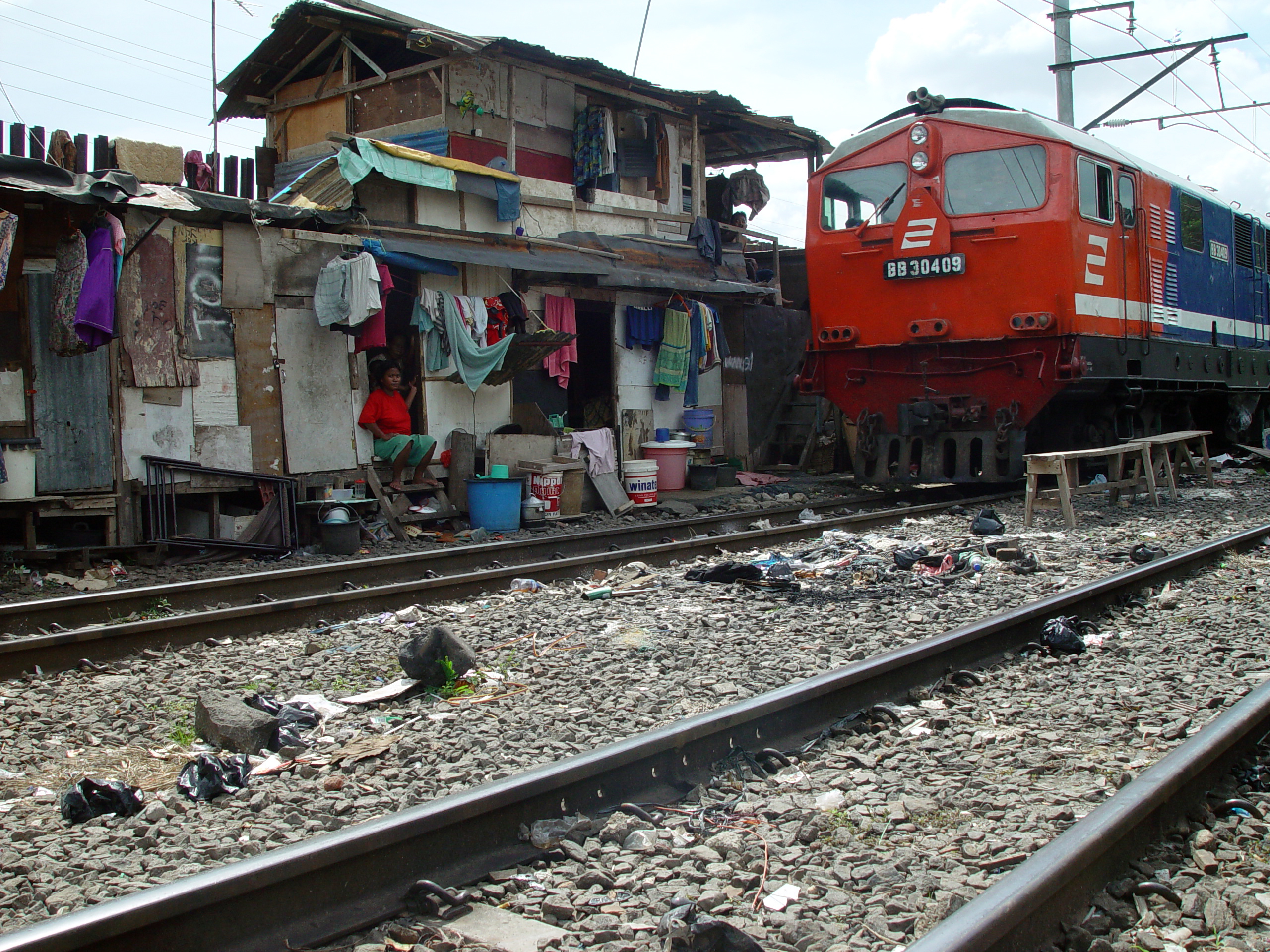 Slum shelters built just feet from the train tracks in central Jakarta Indonesia.